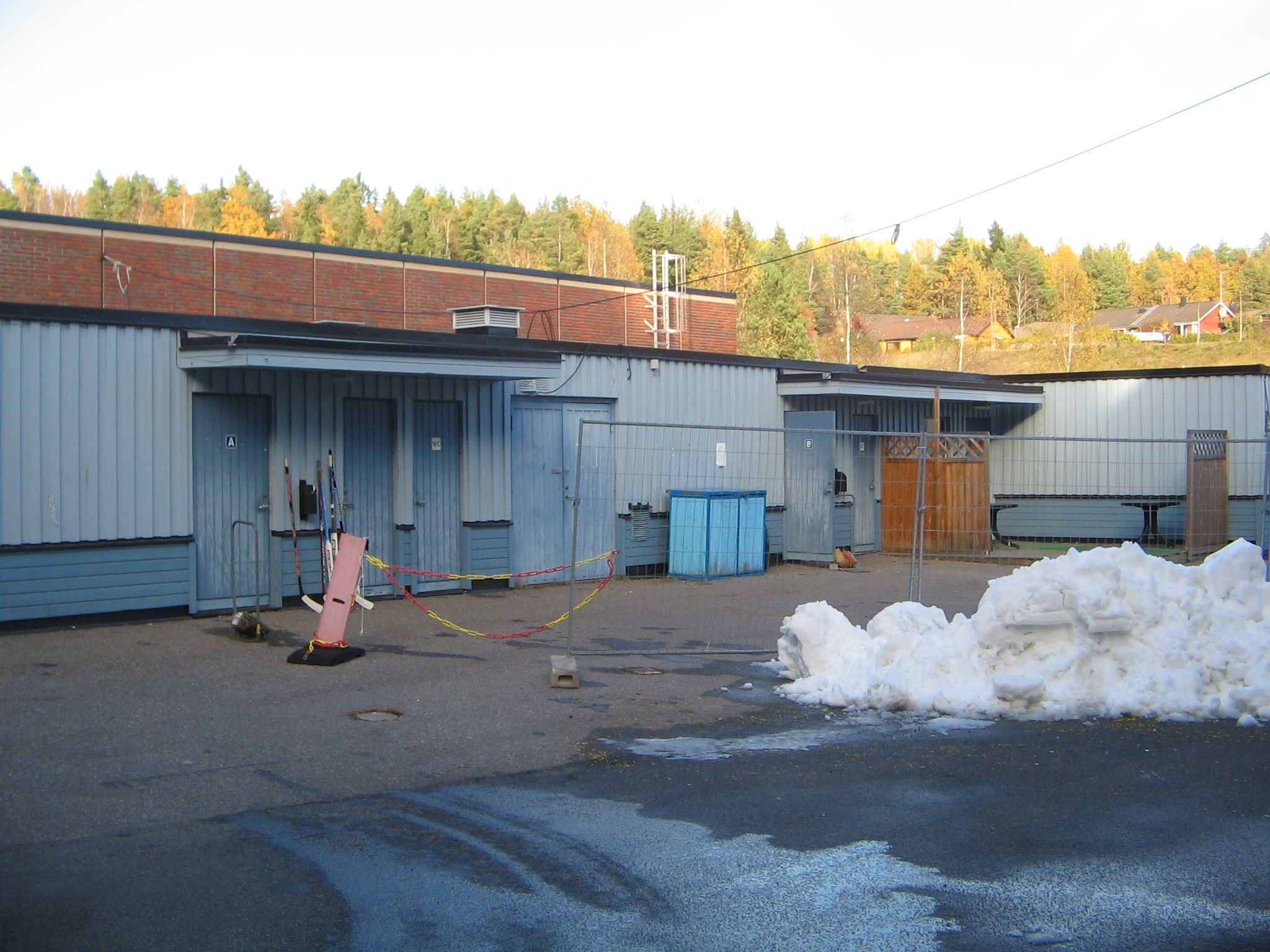 outside Sparbankshallen, changing rooms.